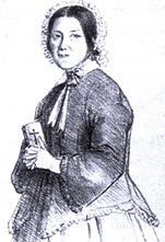 Maria Cederschiold (1815-1892), Swedish deaconess